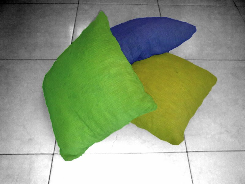 Green, yellow and blue pillows.